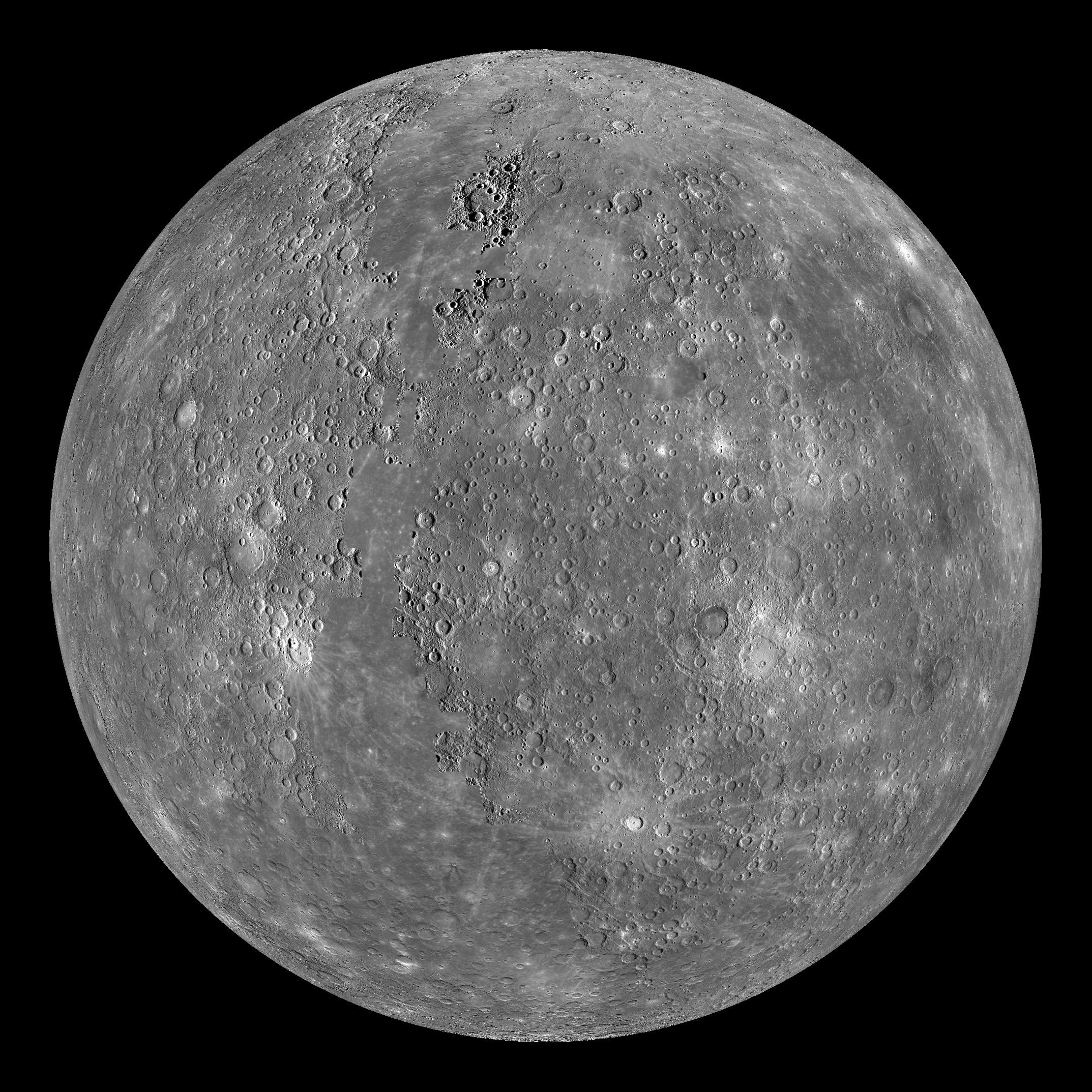 This image shows an orthographic projection of this global mosaic centered at 0°N, 0°E. The rayed crater Debussy can be seen towards the bottom of the globe and the peak-ring basin Rachmaninoff can be seen towards the eastern edge. Release Date: November 29, 2011